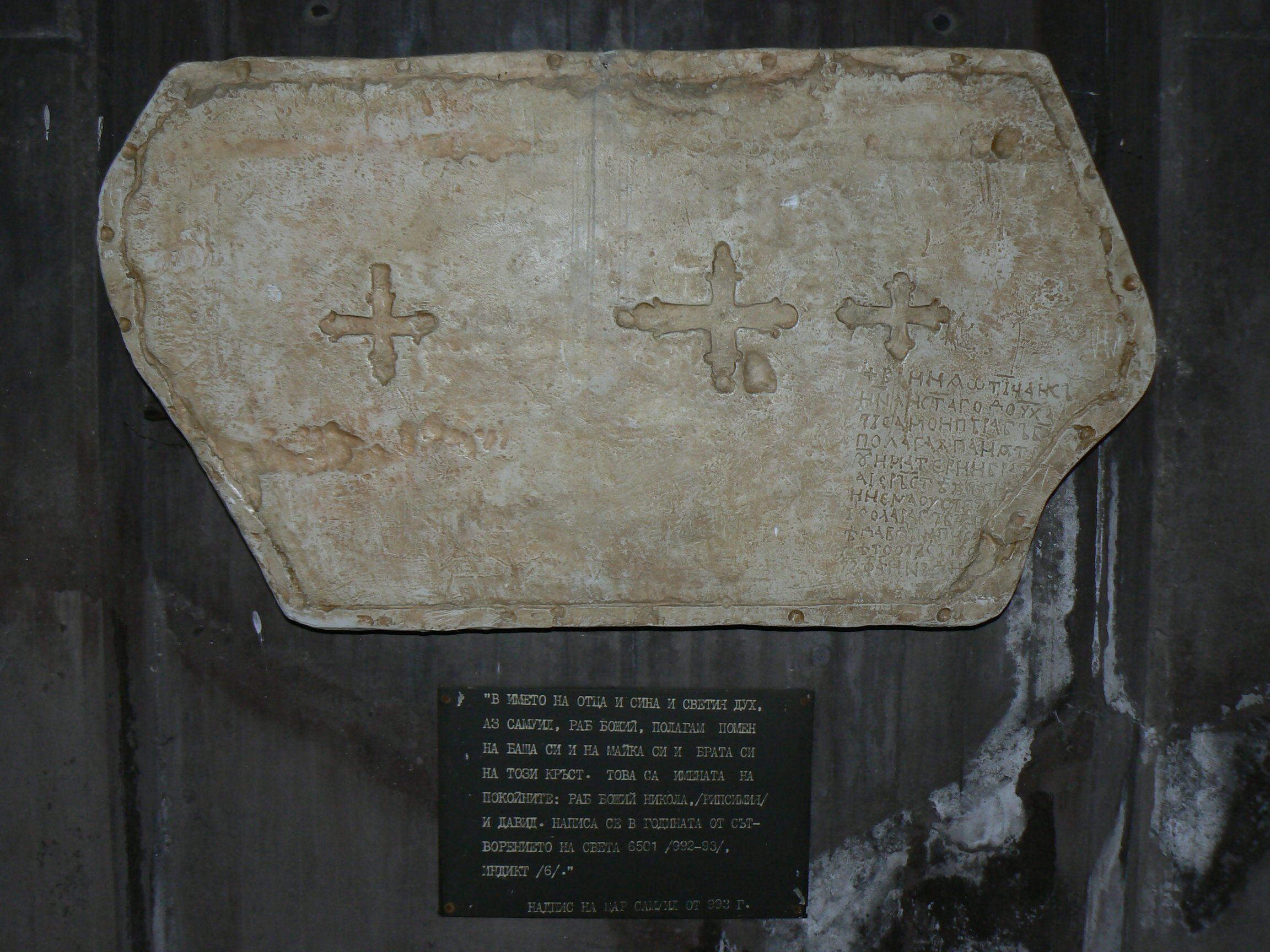 A stone inscription at Samuil's fortress in Bulgaria (near villages of Klyuch and Strumeshnitsa, and city of Petrich)